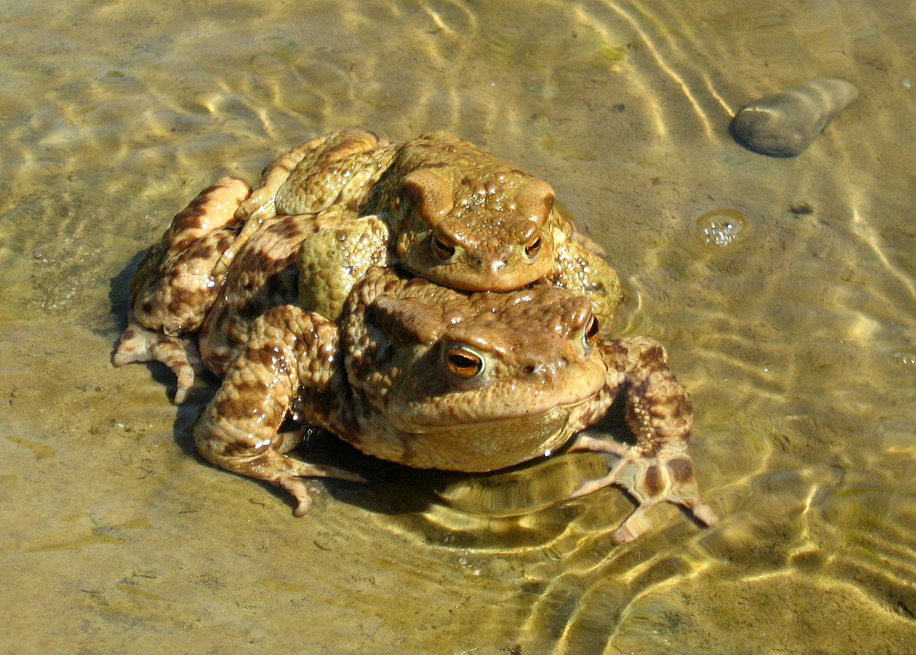 Bufo Bufo found in Poland in "Sromowce Niżne" at "Dunajec" river. On the top there is male. The female carry male.